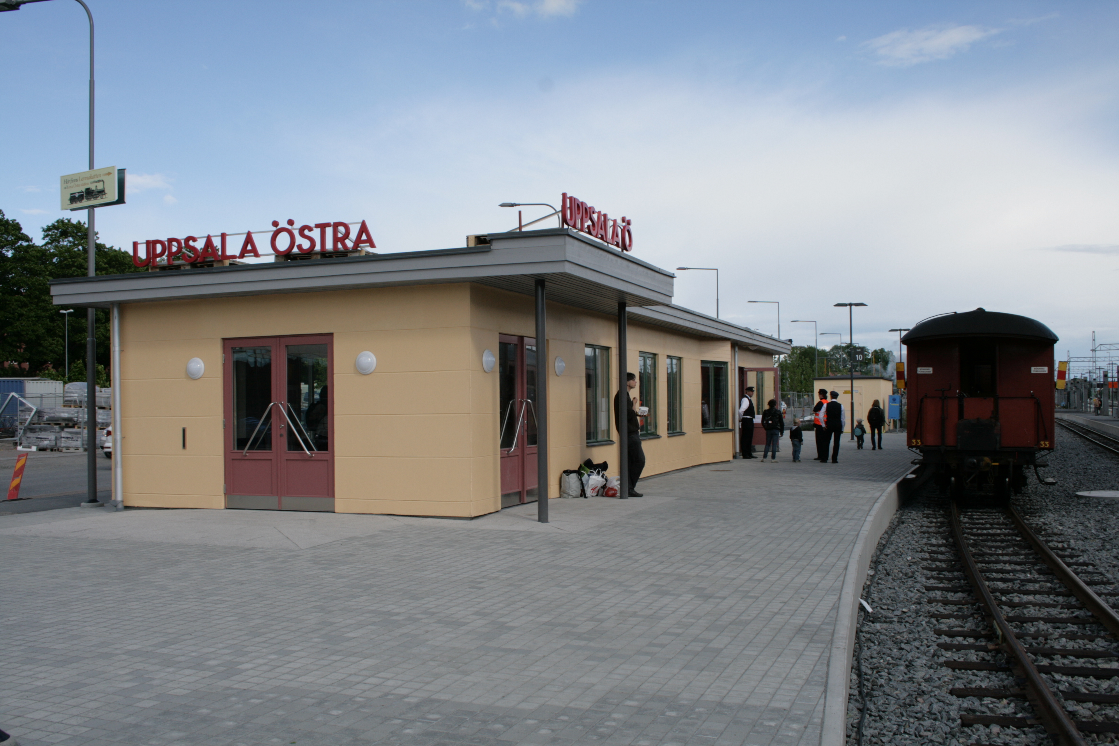 Stationbuilding at Uppsala East